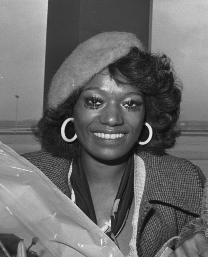 Bonnie Pointer at Schiphol Airport in 1974